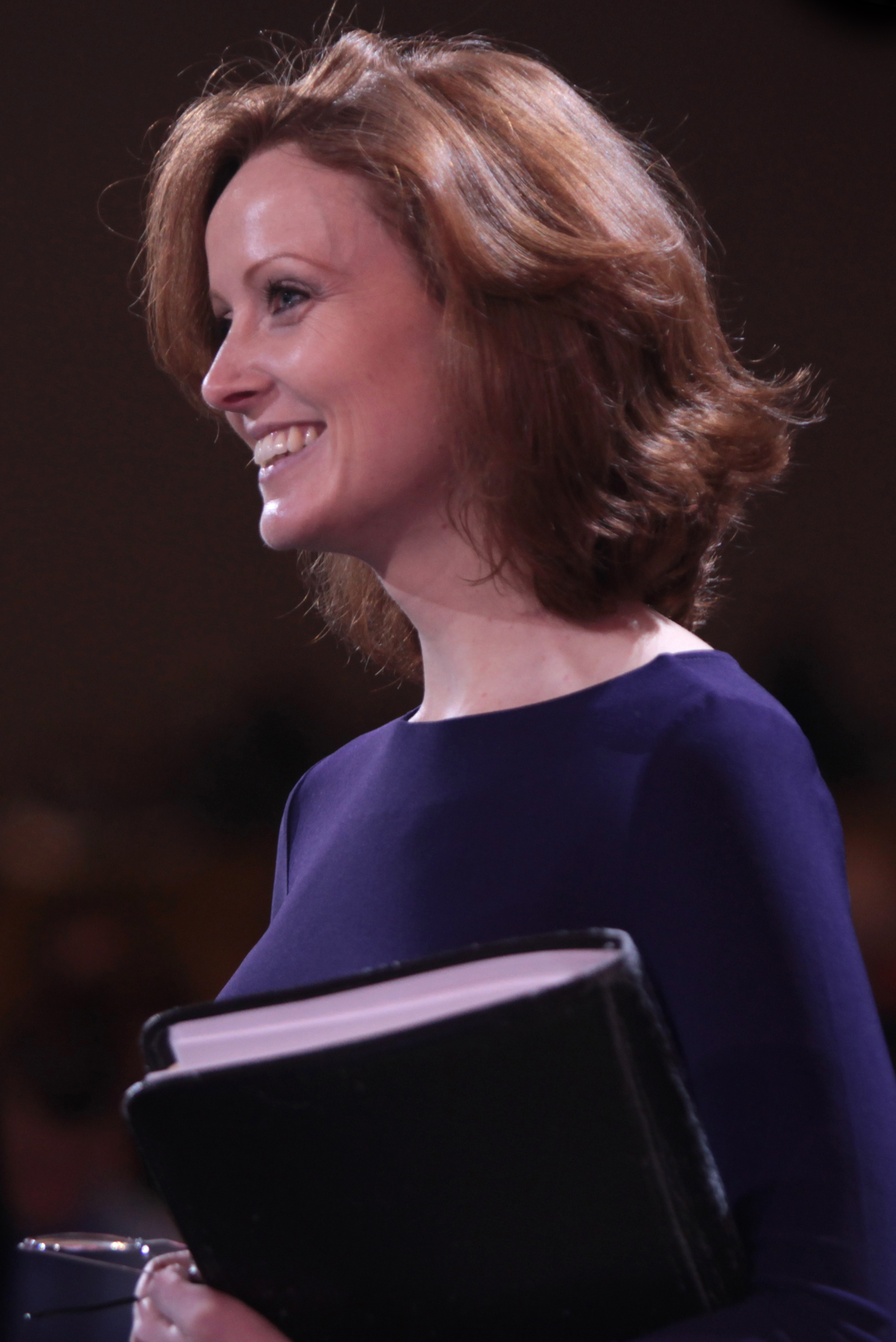 Elizabeth Kucinich speaking at an event in Washington, D.C.